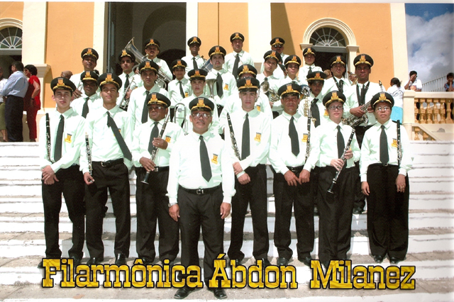 Filarmonic Band Ábdon Milanez